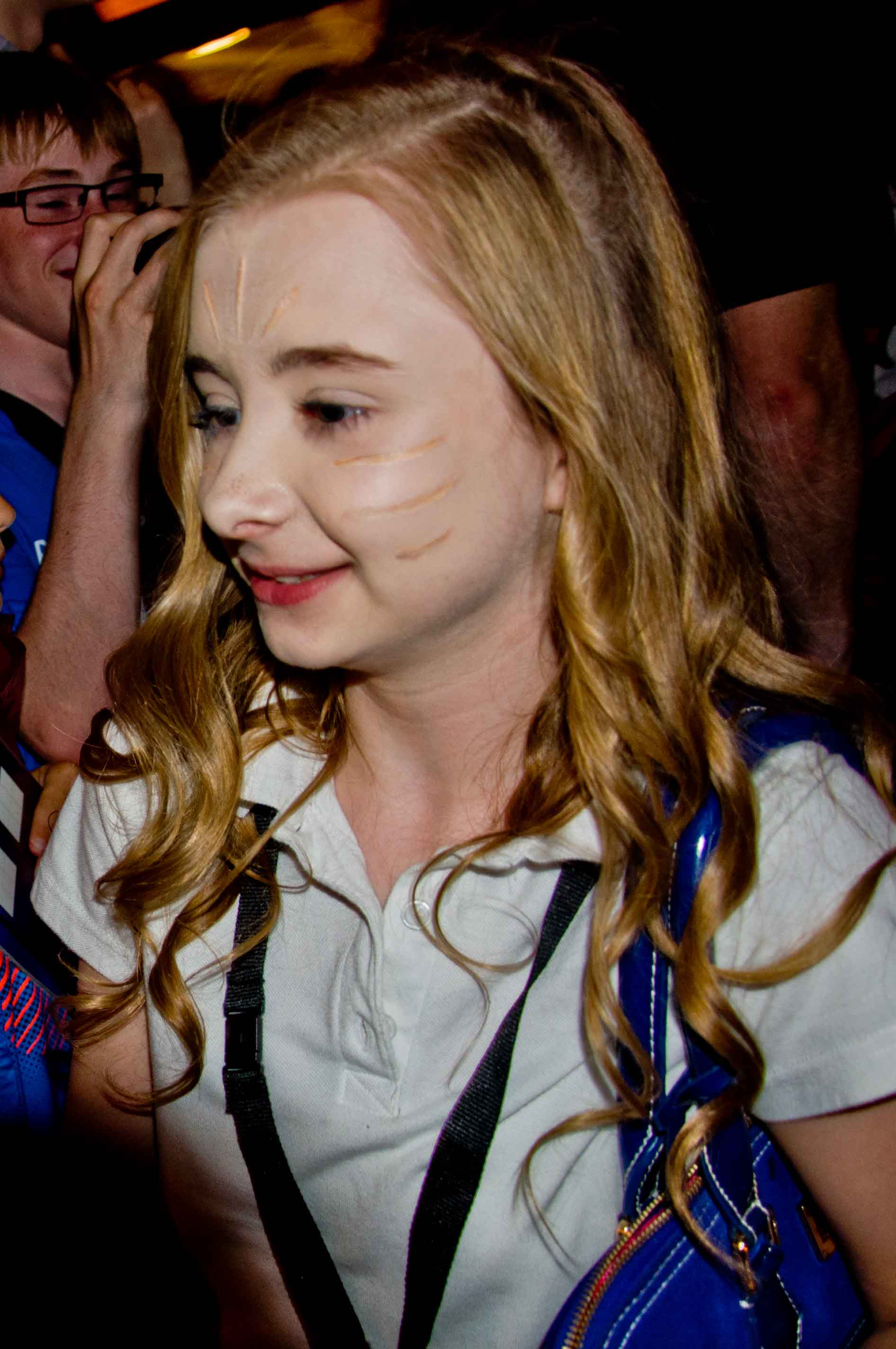 50th anniversary of BBC television series Doctor Who Special prom at the Royal Albert Hall in London.